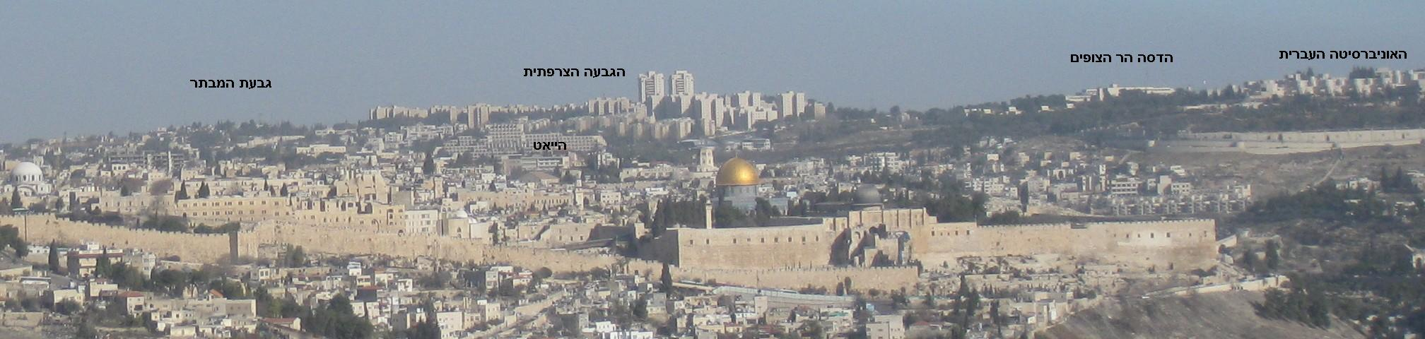 Views from Armon Hanatsiv Promenade